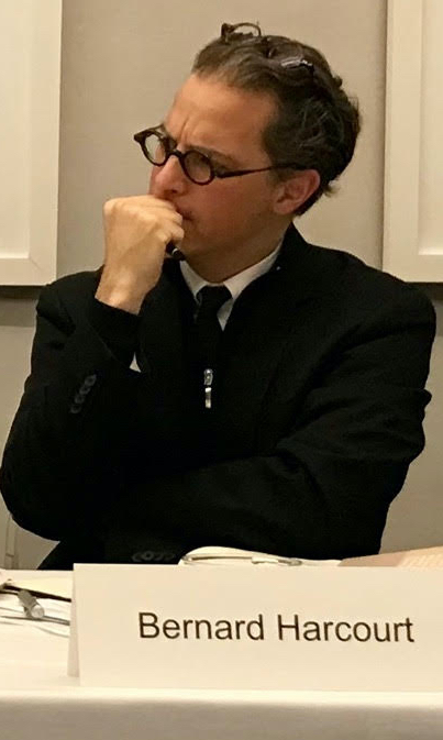 Bernard Harcourt, speaking a panel at Columbia University in January 2019.